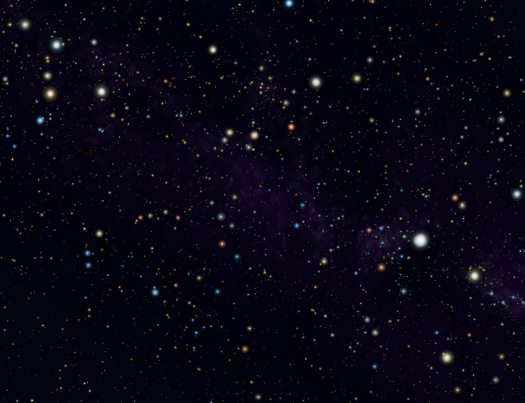 Image of Lacerta